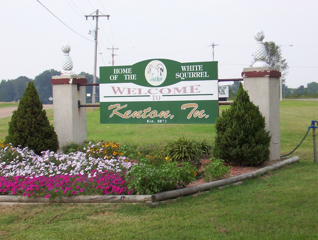 Photo of a sign in Kenton, Tennessee, calling it the "Home of the White Squirrel"